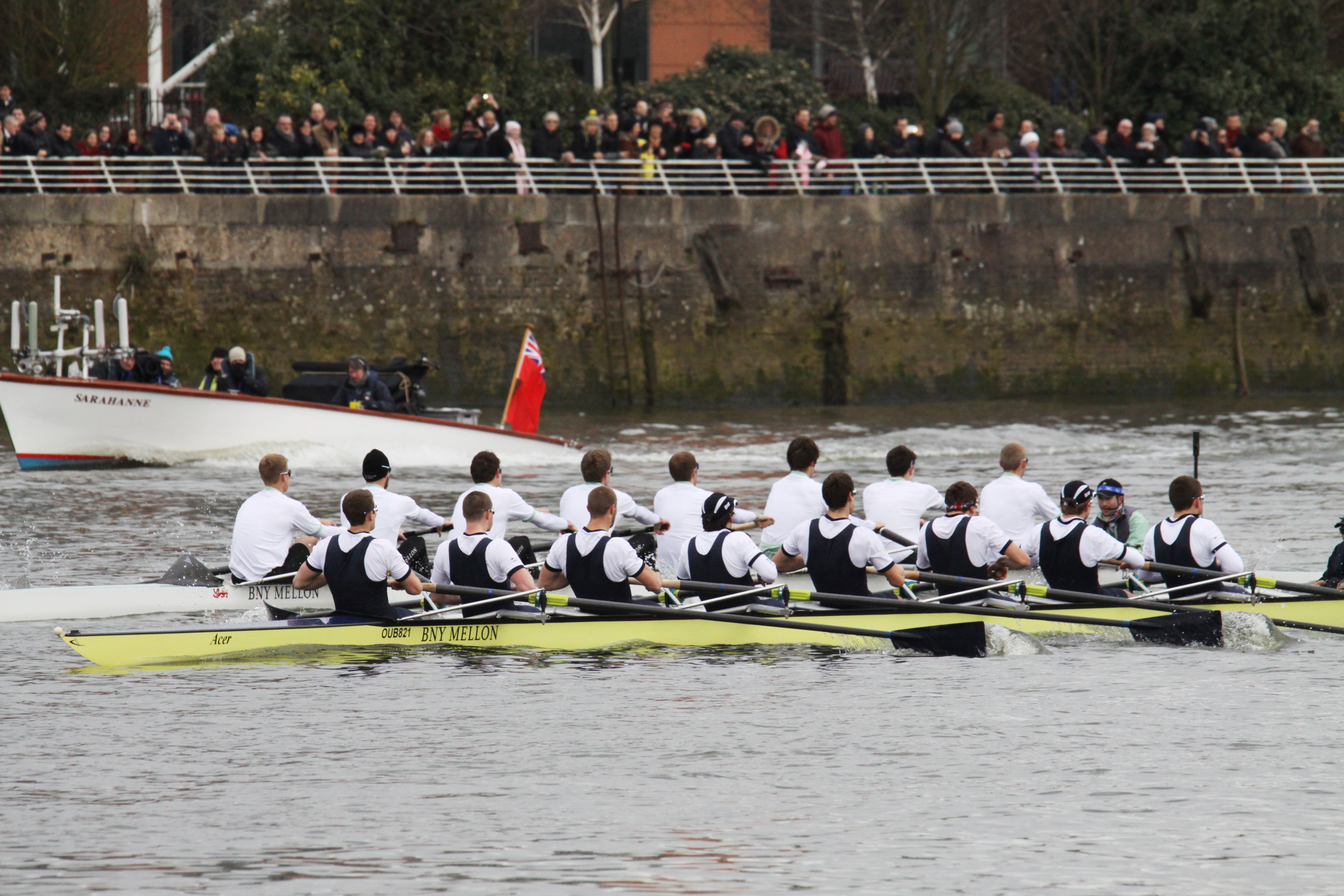 Race between Oxford (dark blue dresses) and Cambridge (white dresses) during the Boat Race on River Thames, England, Great Britain.